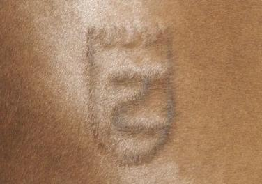 The Zangersheide stud brand